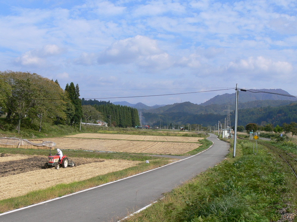 Kaiyu-gou Ibaraki town loop bus(Japan).